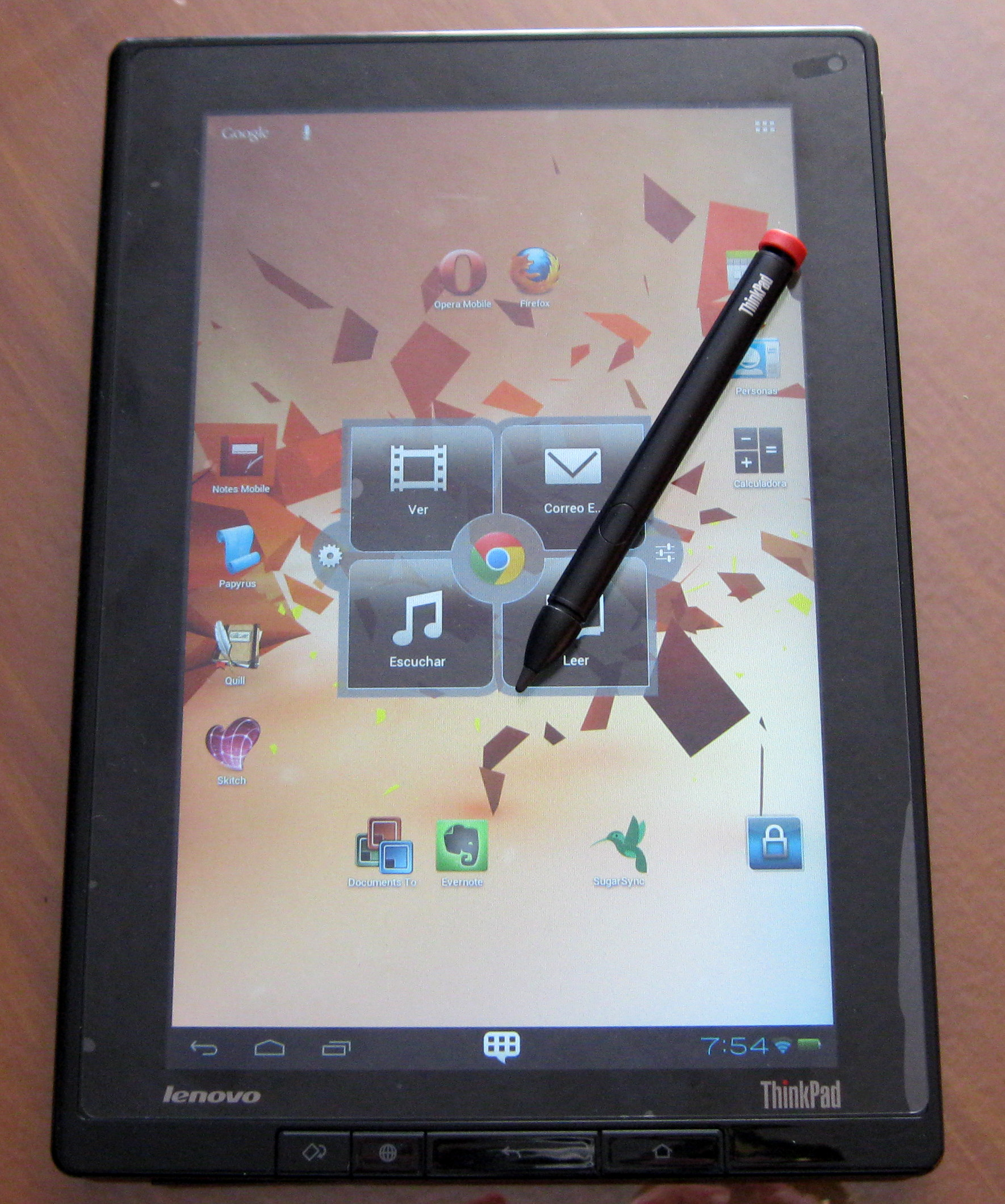 Lenovo Thinkpad Tablet with pen picture